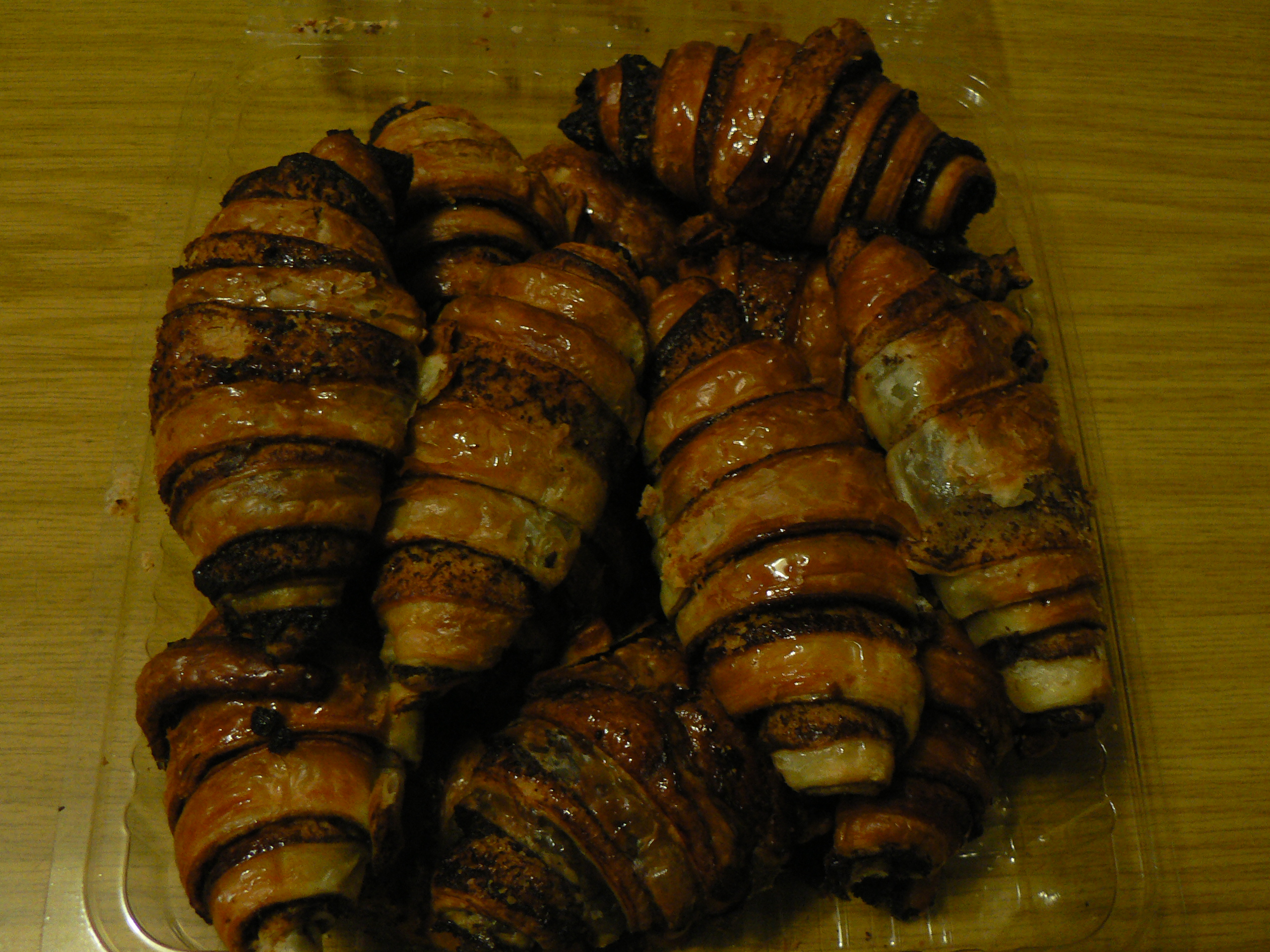 Rogalach רוגעלך - Jewish chocolate bakery